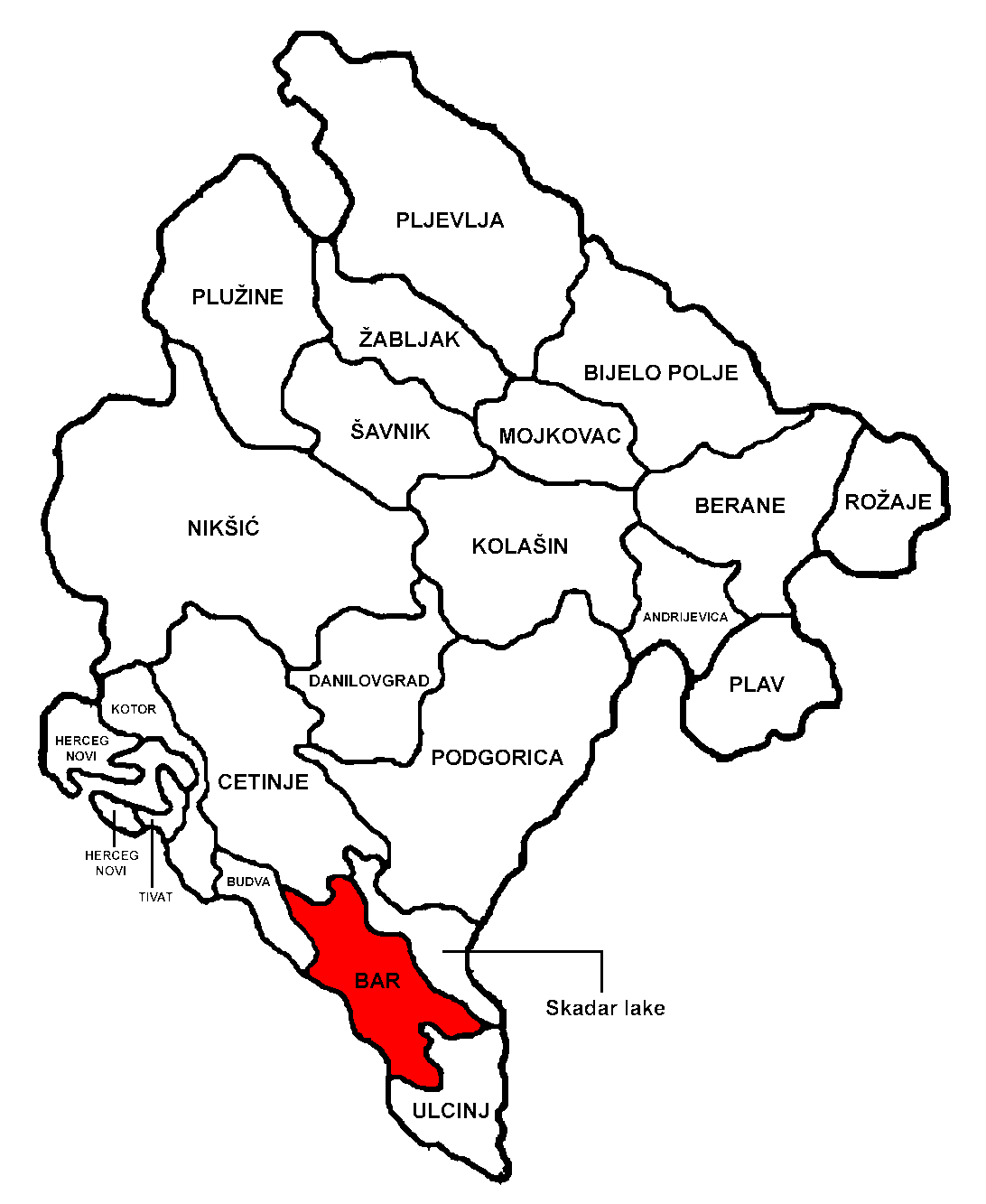 Location of Bar within Montenegro